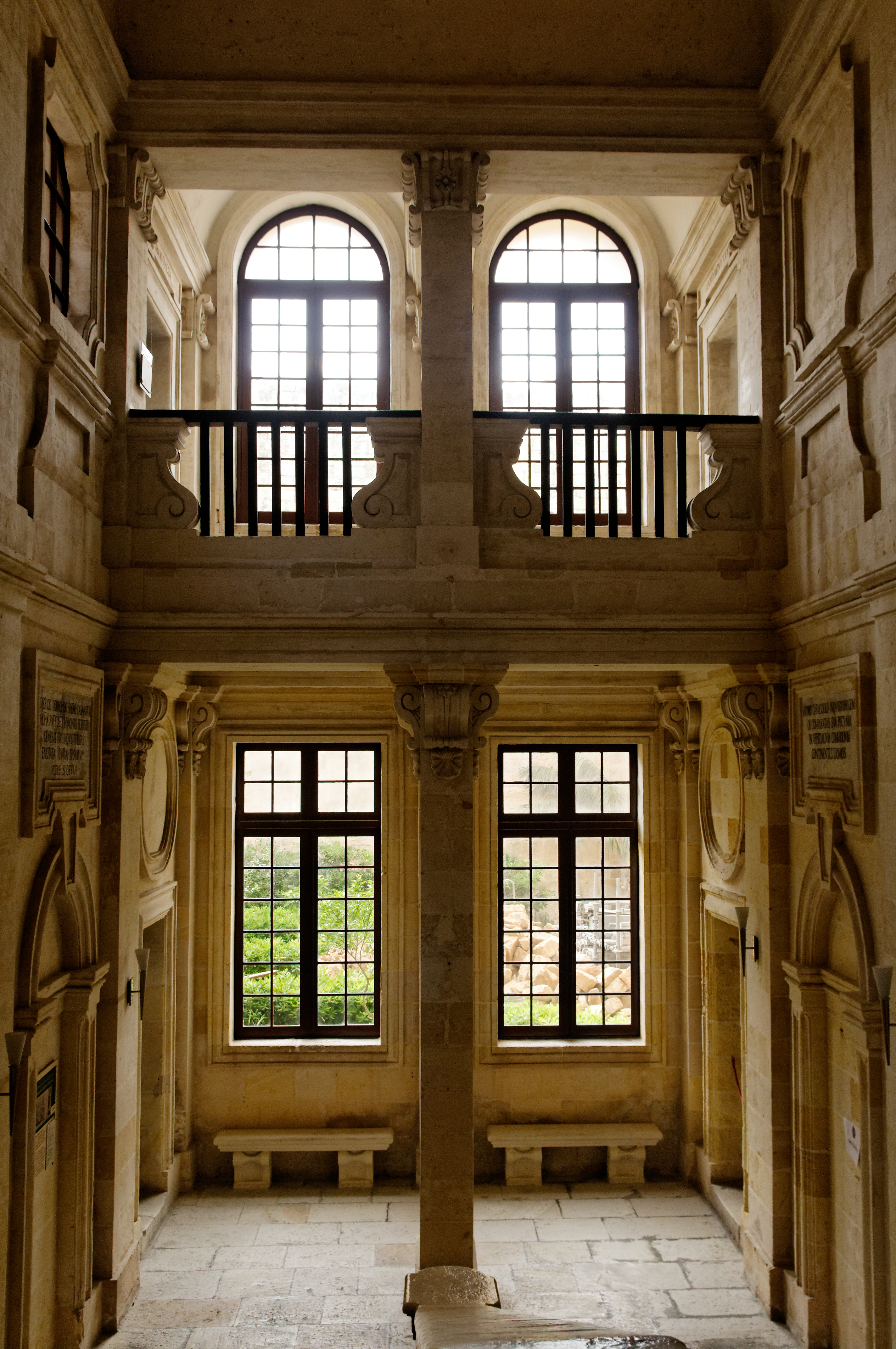 Main staircase of the Inquisitor's palace in Vittoriosa (Birgu), Malta.